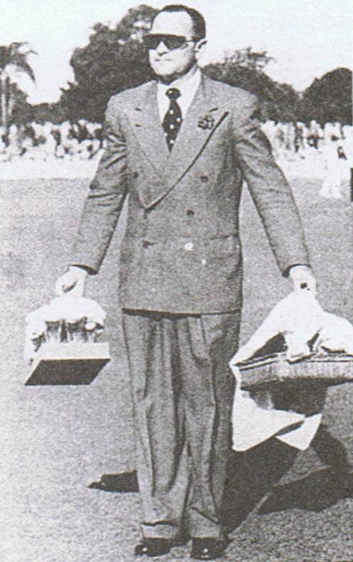 Sid Barnes, carries cigars, iced towels and a radio onto the Adelaide Oval as 12th man in the NSW v SA game in November 1952.